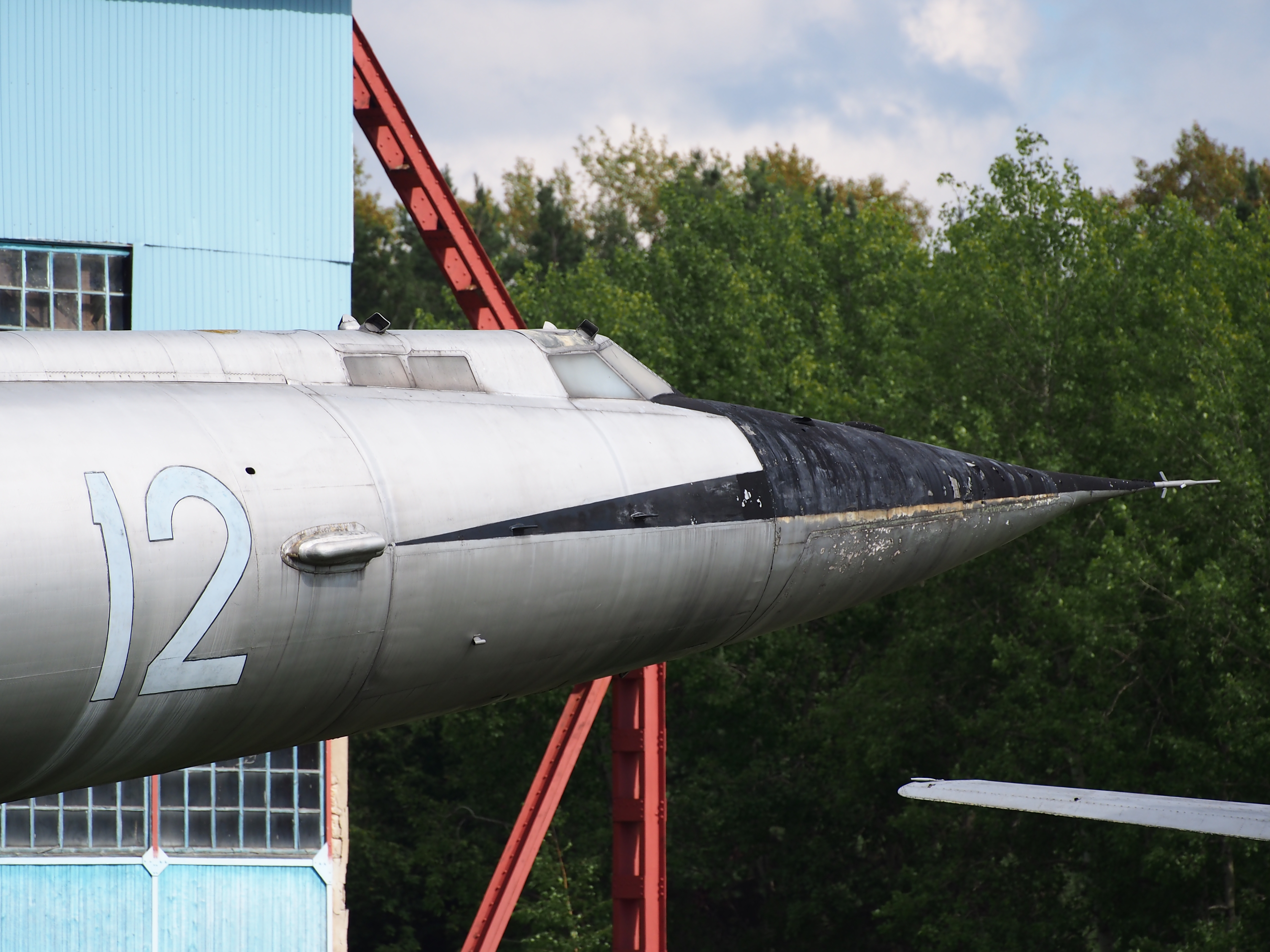 Myasishchev M-50 at the Central Air Force Museum